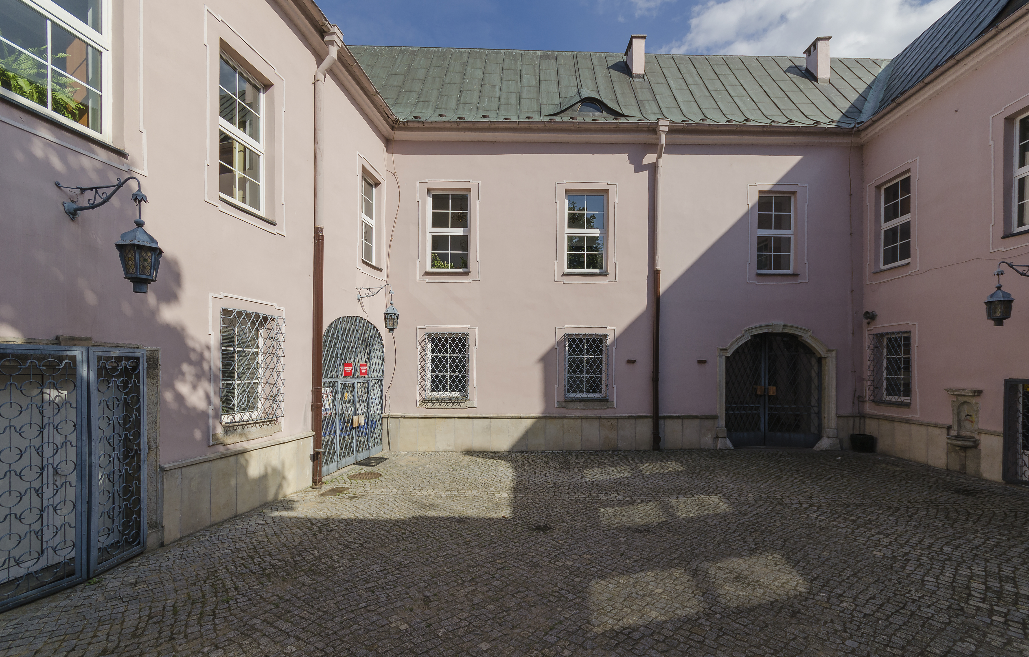 15 Grodzka Street in Nysa, courtyard